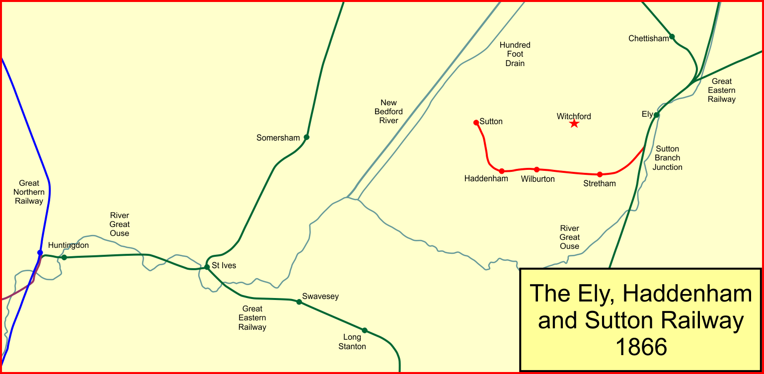 System map of the Ely, Haddenham and Sutton Railway, England, in 1866